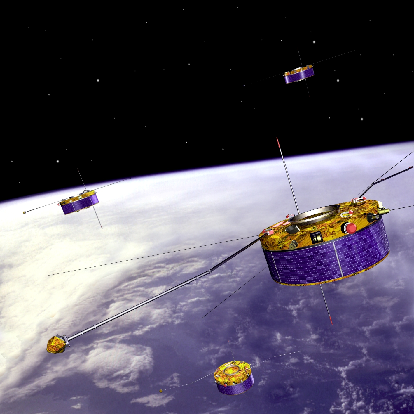 The Cluster mission comprises four satellites flying in a tetrahedral formation and collecting the most detailed data yet on small-scale changes in near-Earth space, and on the interaction between the charged particles of the solar wind and Earth’s magnetosphere.